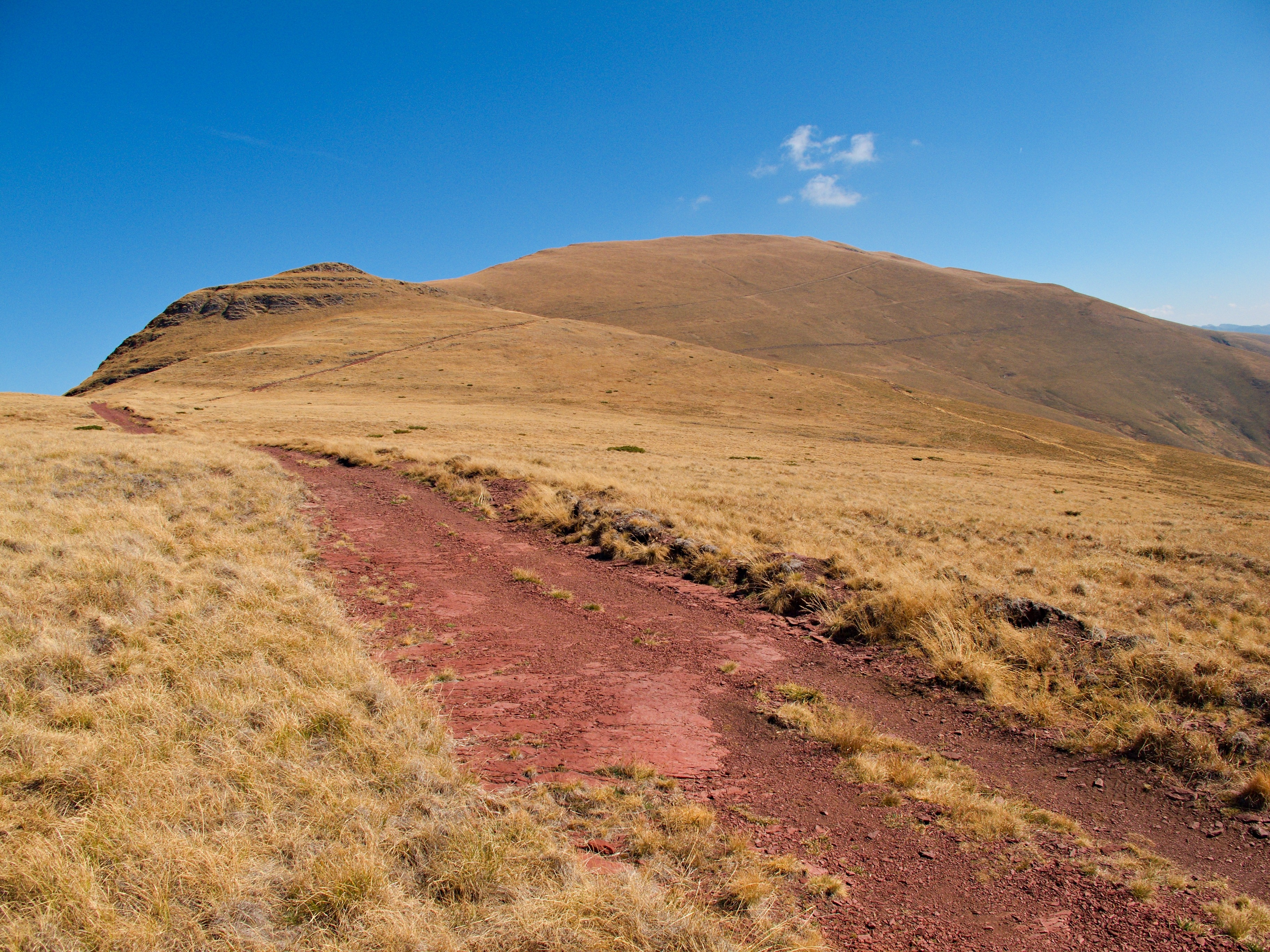 Path to Midžor